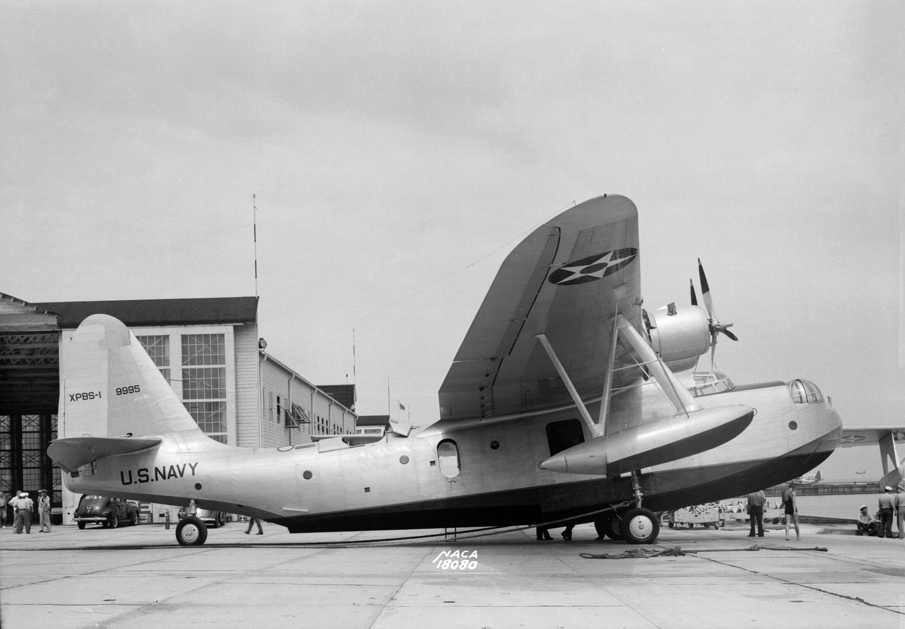 The U.S. Navy Sikorsky XPBS-1 patrol bomber prototype (BuNo 9995) while being evaluated by the National Advisory Committee for Aeronautics, 25 July 1938. The Sikorsky XPBS-1 was a large four-engined flying boat ordered by the Navy in 1935. Although never ordered into production, the NACA evaluated the craft in 1938. Many aircraft were flown at Langley to give an appraisal from the highly experiences staff. These appraisals often meant that the aircraft was with the NACA only briefly.